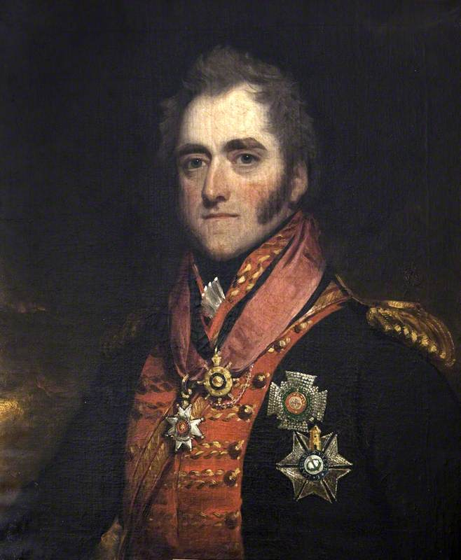 (c) National Trust, Shugborough; Supplied by The Public Catalogue Foundation